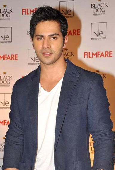 Varun Dhawan at the Filmfare Magazine launch in Mumbai, October 2012